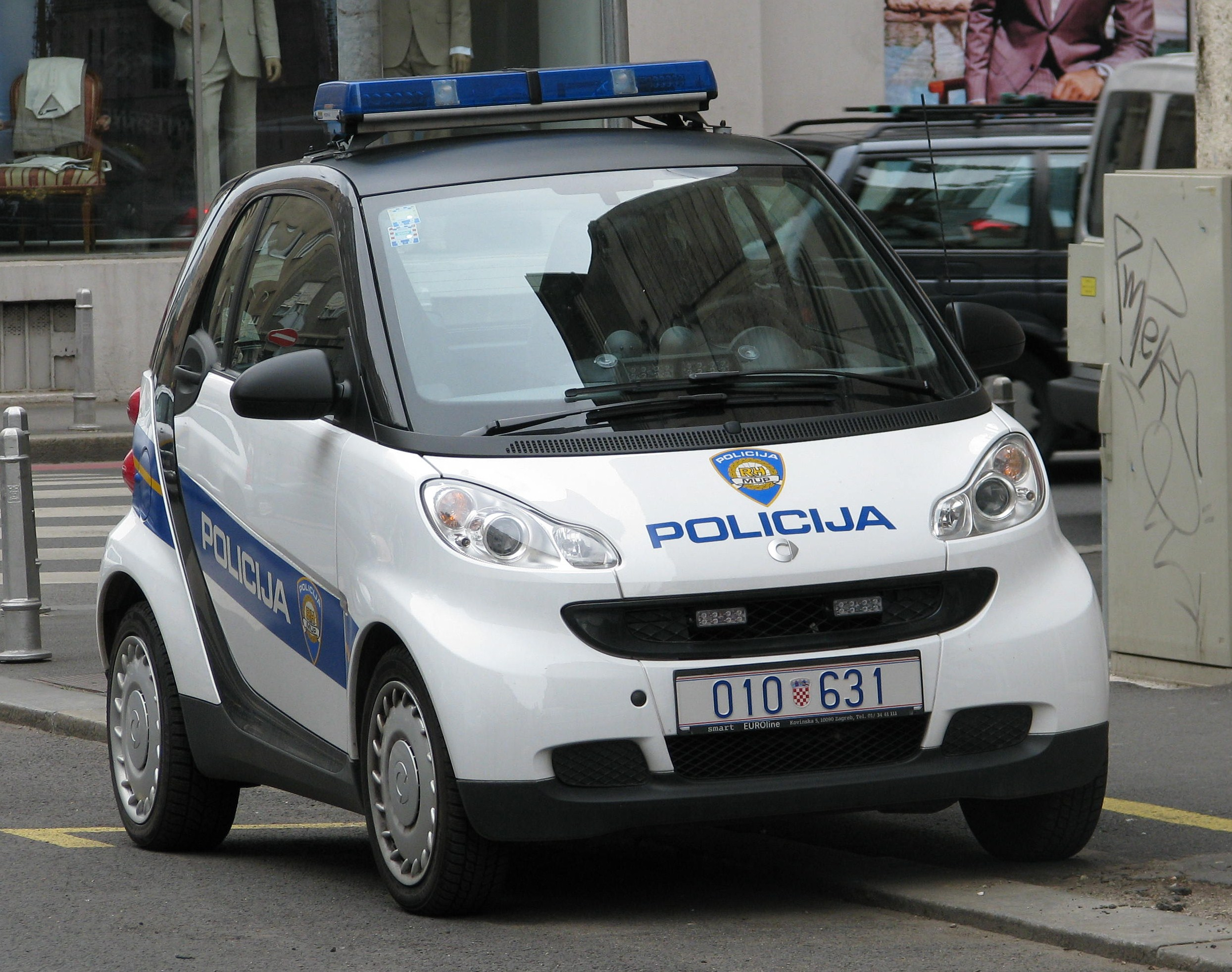 Croatian police Smart